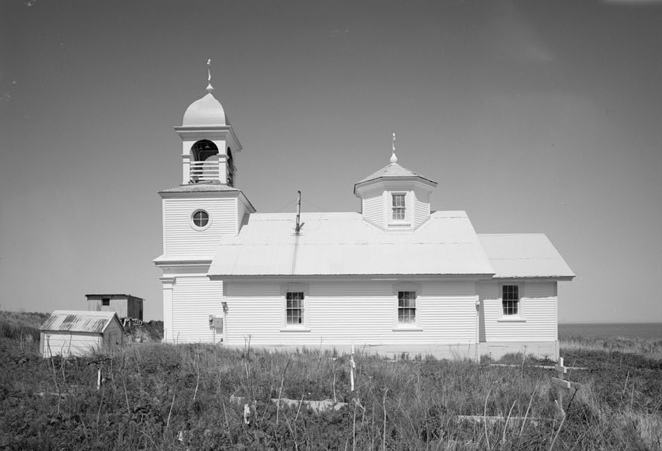 Southern side of the Ascension of Our Lord Chapel, a Russian Orthodox chapel in Karluk, a city in the Kodiak Island Borough of the U.S. state of Alaska. Built in 1888, the building was added to the National Register of Historic Places on June 6, 1980.